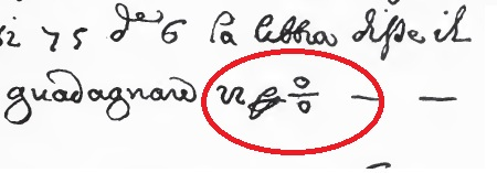 Usage of percentage symbol used in a 1685 arithmetic text (author unknown) reprinted in Rara Arithmetica by D.E. Smith, with symbol circled in red.